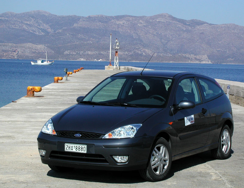 Ford_Focus_2001